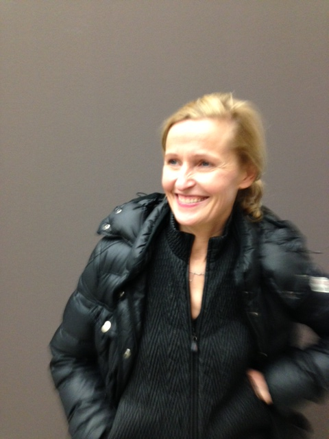 Marietta Piekenbrock Museum Folkwang Essen